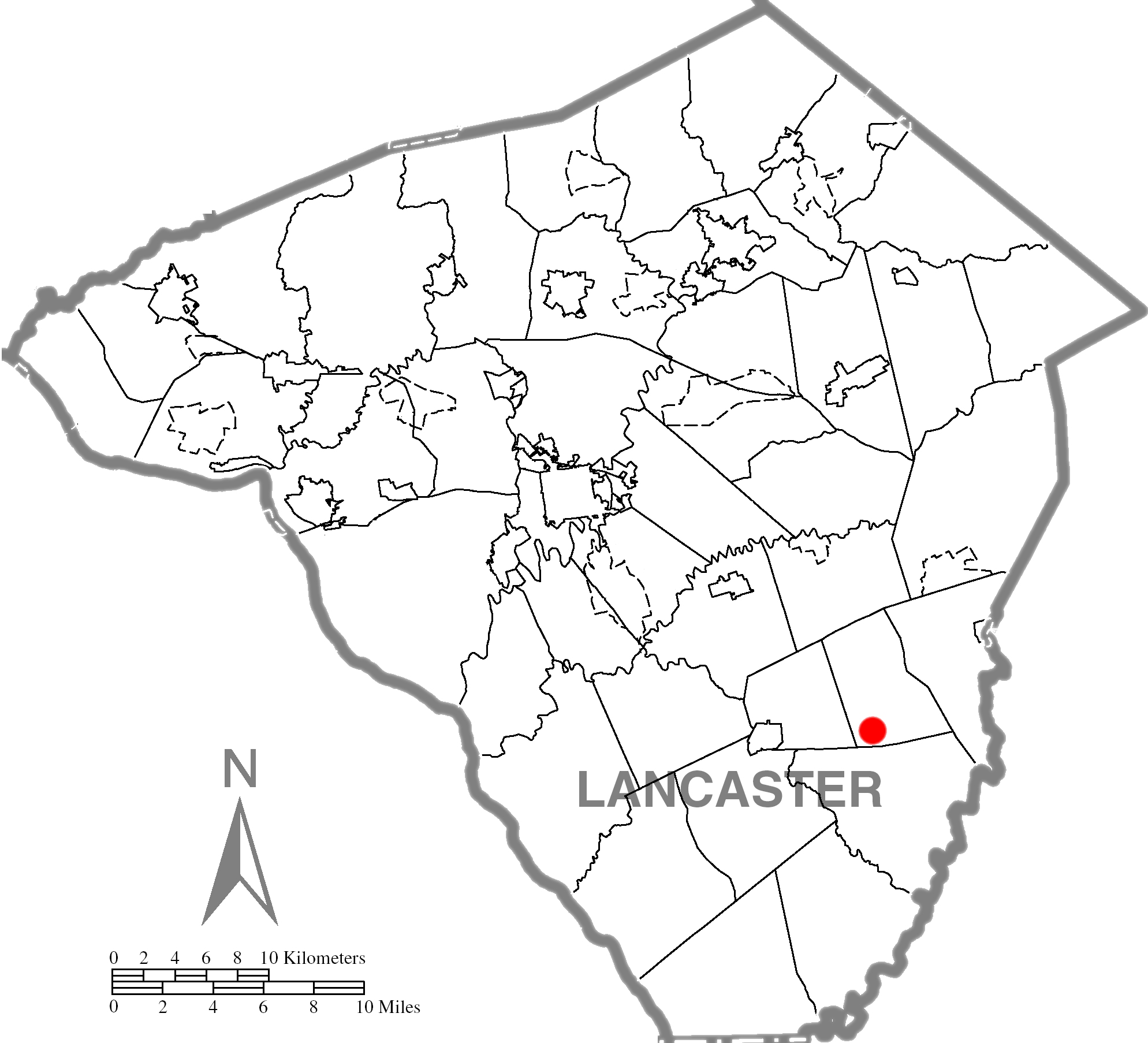 Lancaster County dot map of the Jackson's Sawmill Covered Bridge.